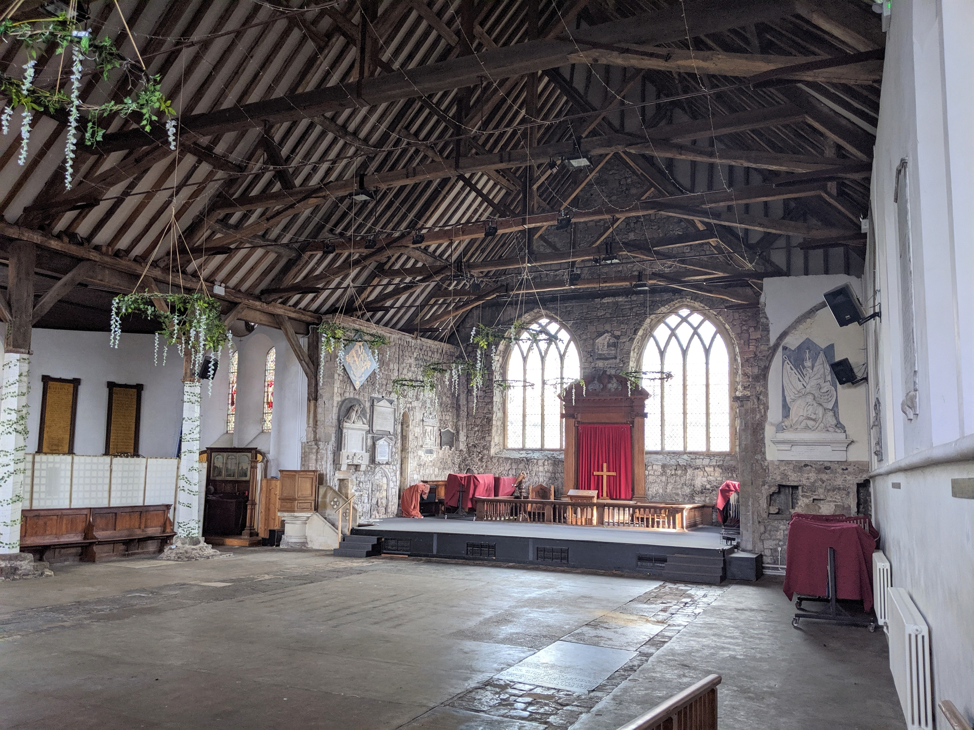 Internal view of St Mary's Church, Sandwich, Kent.